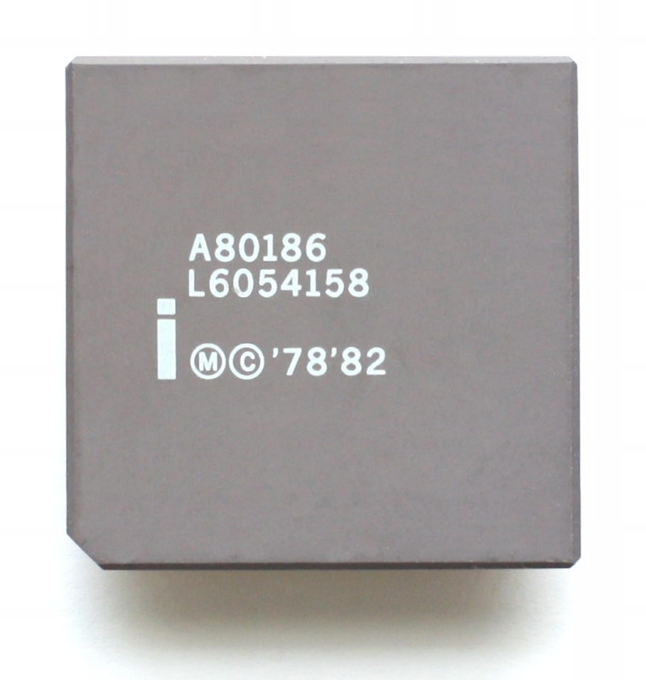 CPU Intel i186 PGA